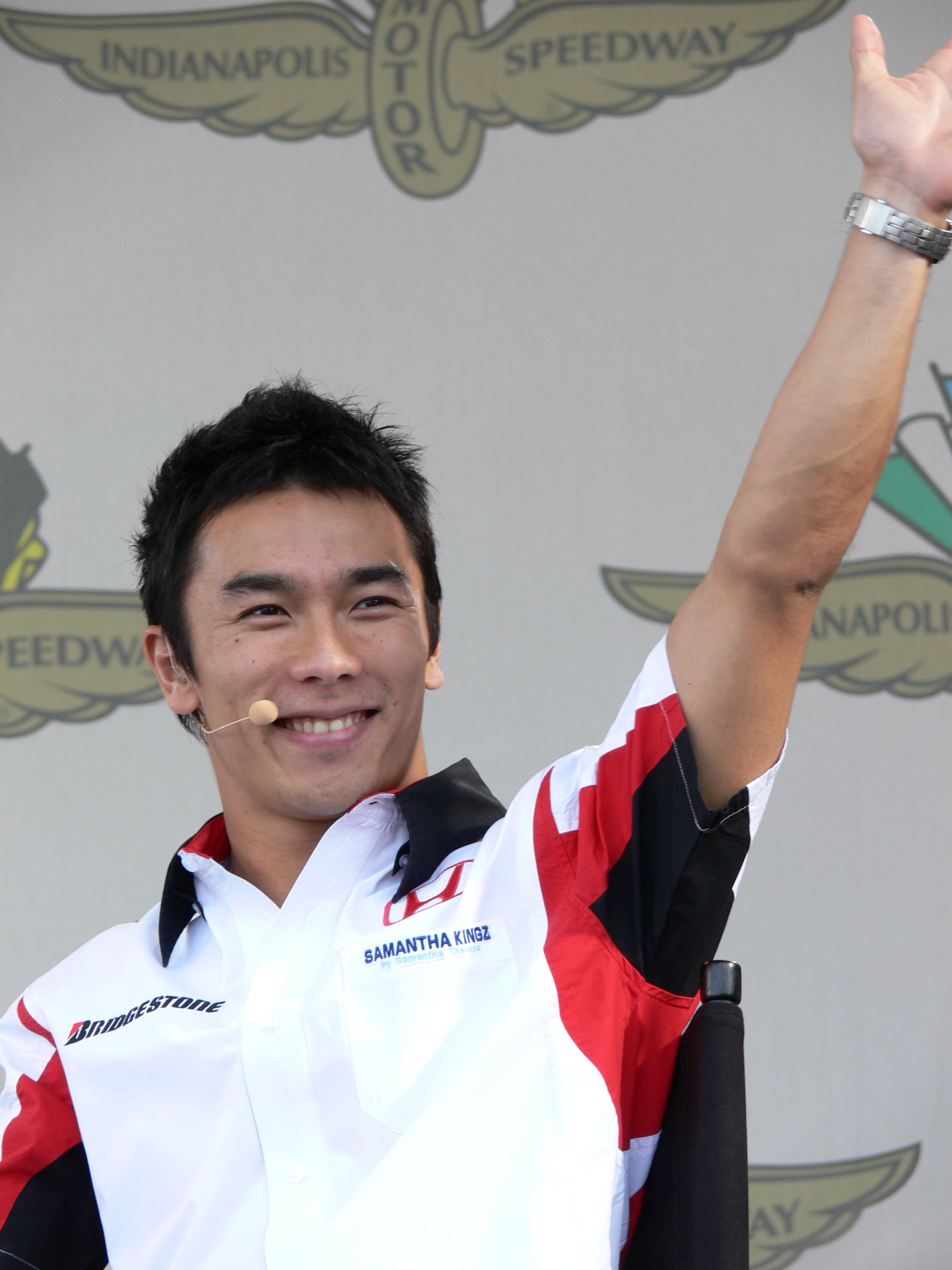 Takuma Sato (Super Aguri) at the 2006 United States Grand Prix